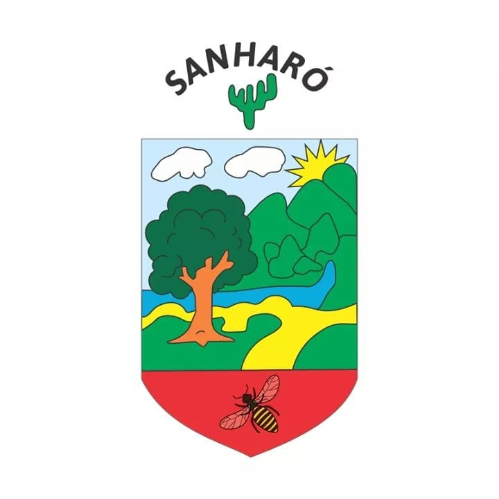 Brasão Sanharó